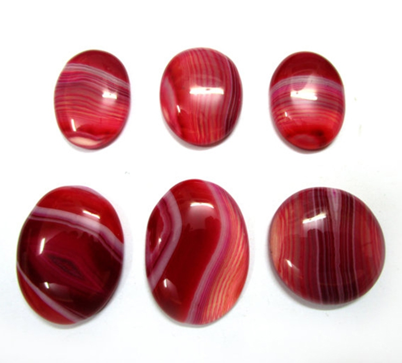 carnelian - Handicraft